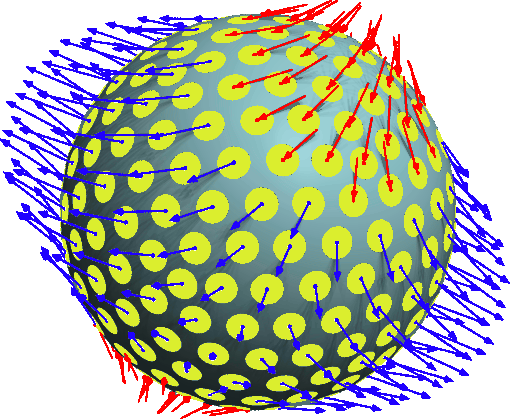 Illustration of stress forces acting on a particle (greenish sphere) in a homogeneous continuous medium under a uniform linear stress, as a function of the orientation of a surface element on the particle's boundary. The arrows show the intensity and direction of the stress acting across each surface element. A red arrow indicates that the normal component of the stress is directed outwards, a blue arrow that it is directed inwards. In its eigenvector basis, the stress tensor has normal components with strength +5, +2 and -3. The picture could be used to illustrate any other symmetric purely linear second-order tensor in 3-space, such as strain, strain rate, polarization, etc. Image created with POV-Ray by J.Stolfi on 2013-02-02. Source code available at